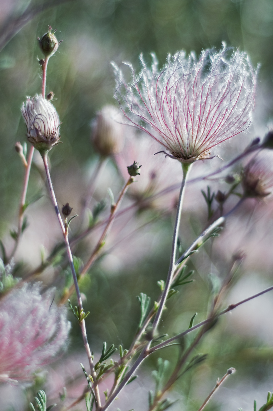 The blooms resemble apple blossoms and bloom in spring. The flowers later form fluffy balls of seeds. The Hopi Indians steep the leaves for a hair tonic. -Wildflowers of Western America, Knopf, Orr. View On Black